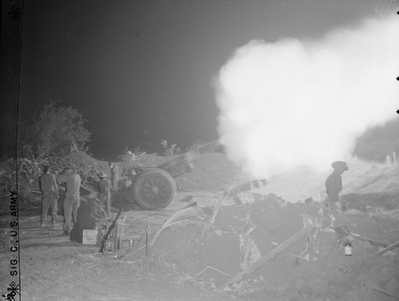 The British Army in Burma 1945 A 7.2-inch howitzer in action at night near Ondaw, 26 February 1945.